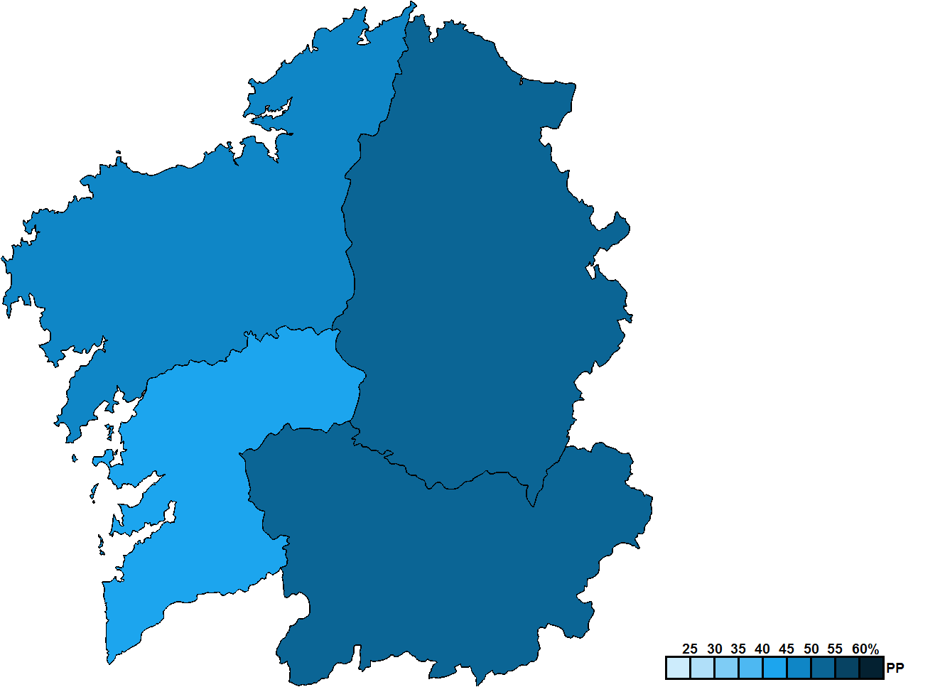 Provincial results for the 2016 Galician regional election.